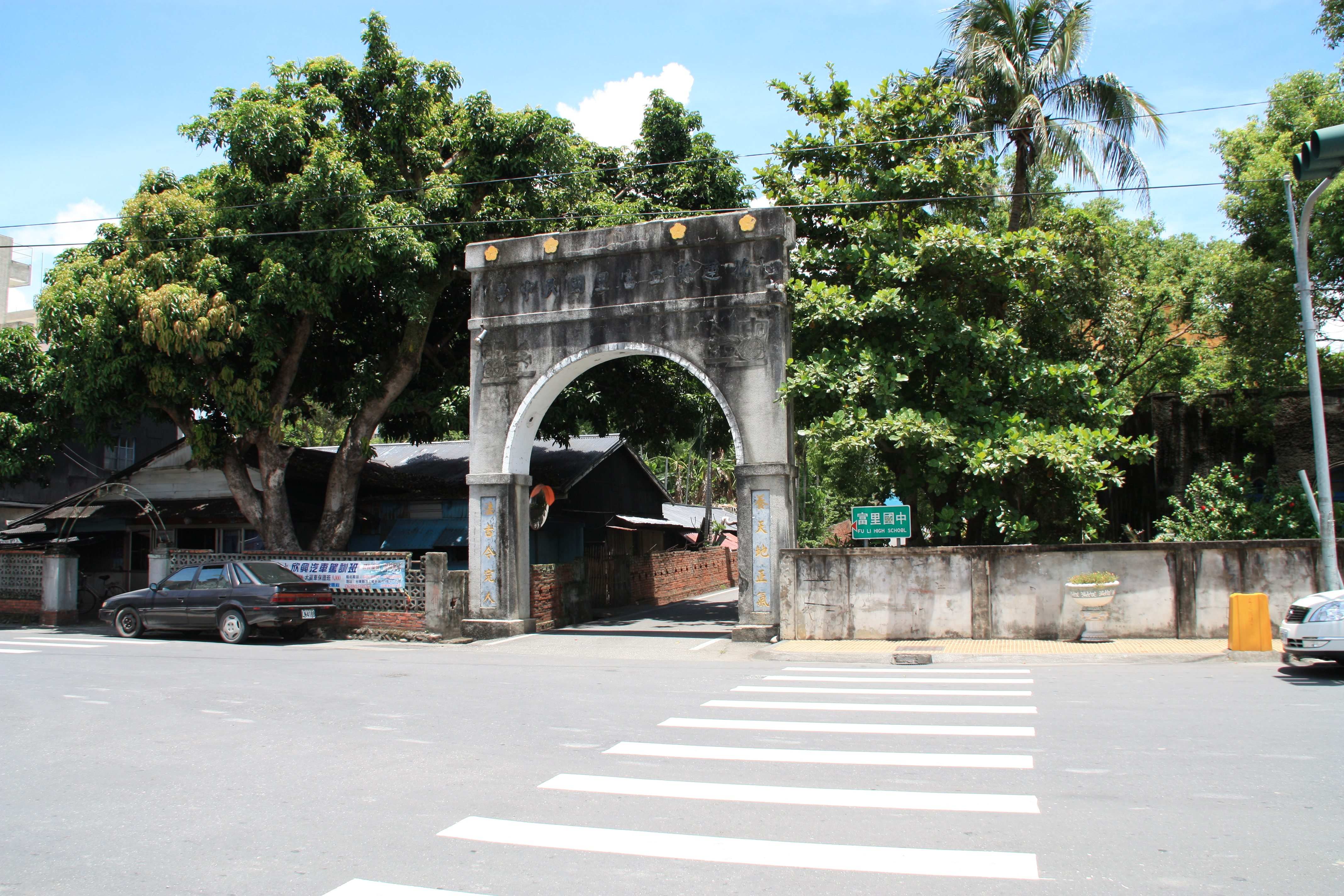 Hualien CountyFùLǐ TownshipFùLǐZhōngshān Rd.-Chēzhàn St. Intersection